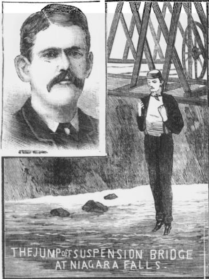 Illustration of Larry Donovan jumping from the suspension bridge at Niagara Falls. Inset: close up of his face.